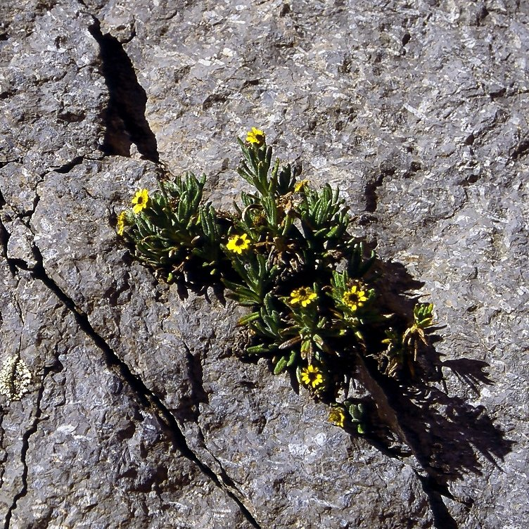 Senecio keniophytum on the Austrian Hut ridge